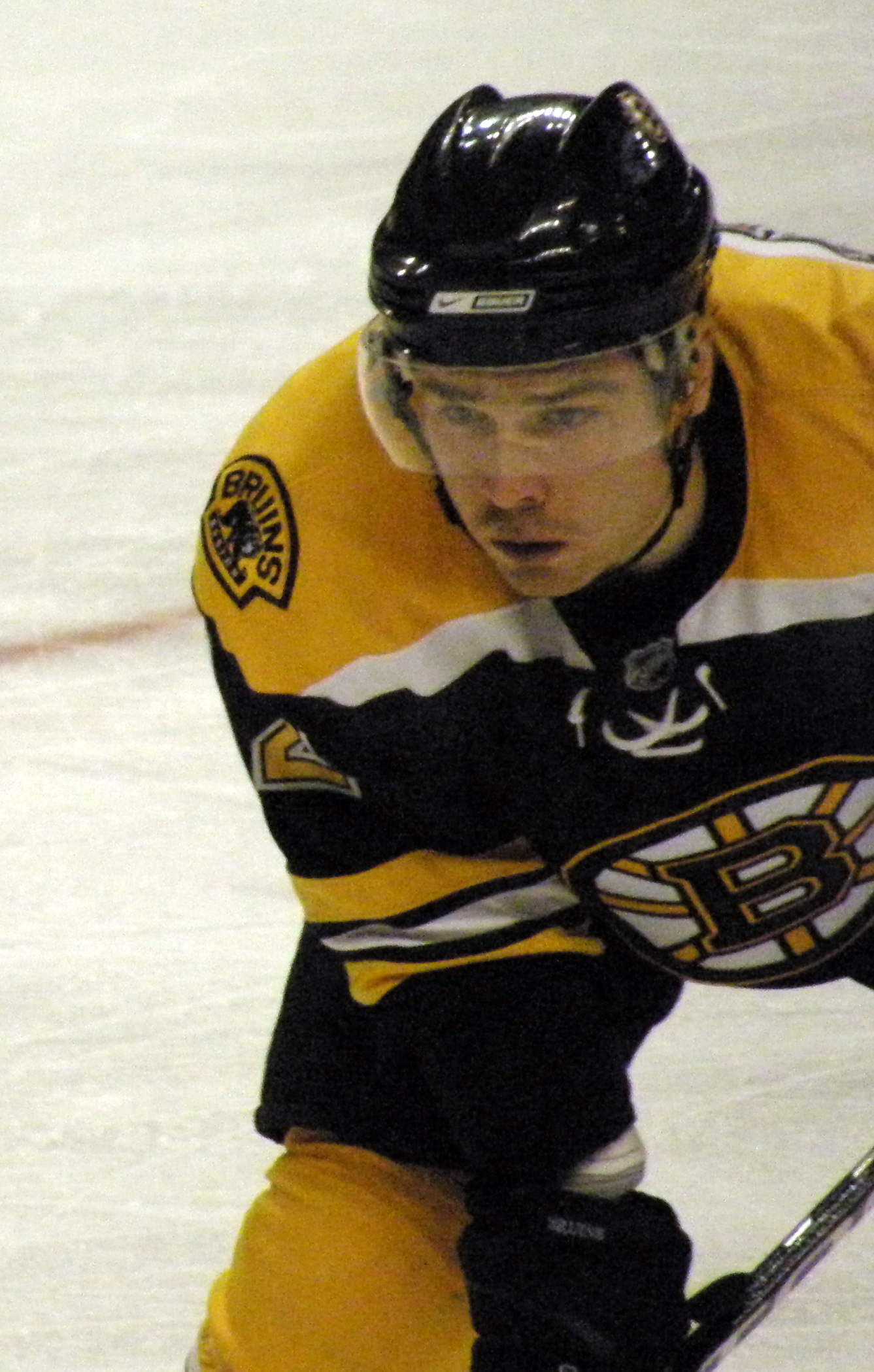 #12 Chuck Kobasew (RW)